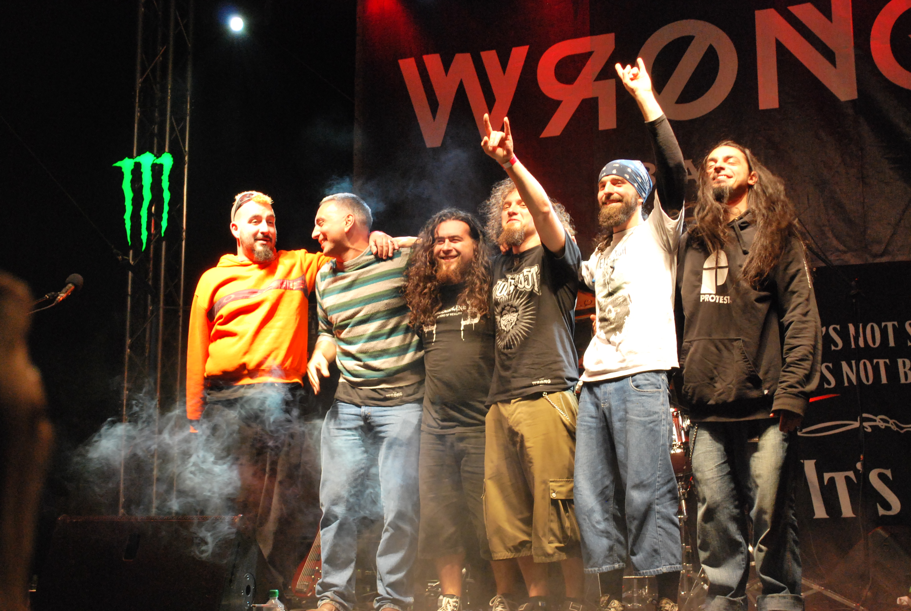 Odd Crew live at Wrong Fest, Voinegovtsi, Sept. 21, 2013.